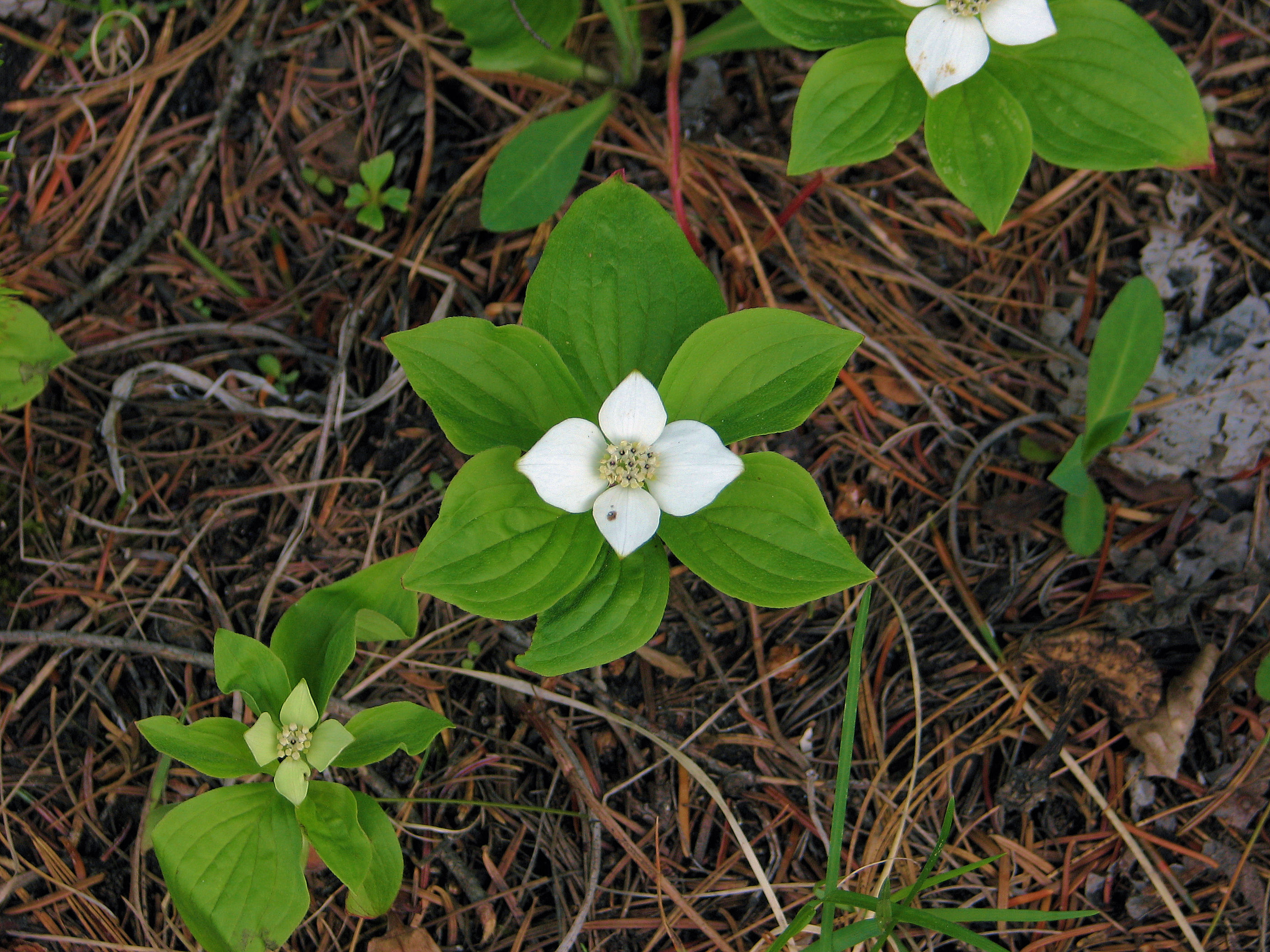 Bunchberry (Cornus canadensis) flowers in Bonnechere Provincial Park, Ontario, Canada